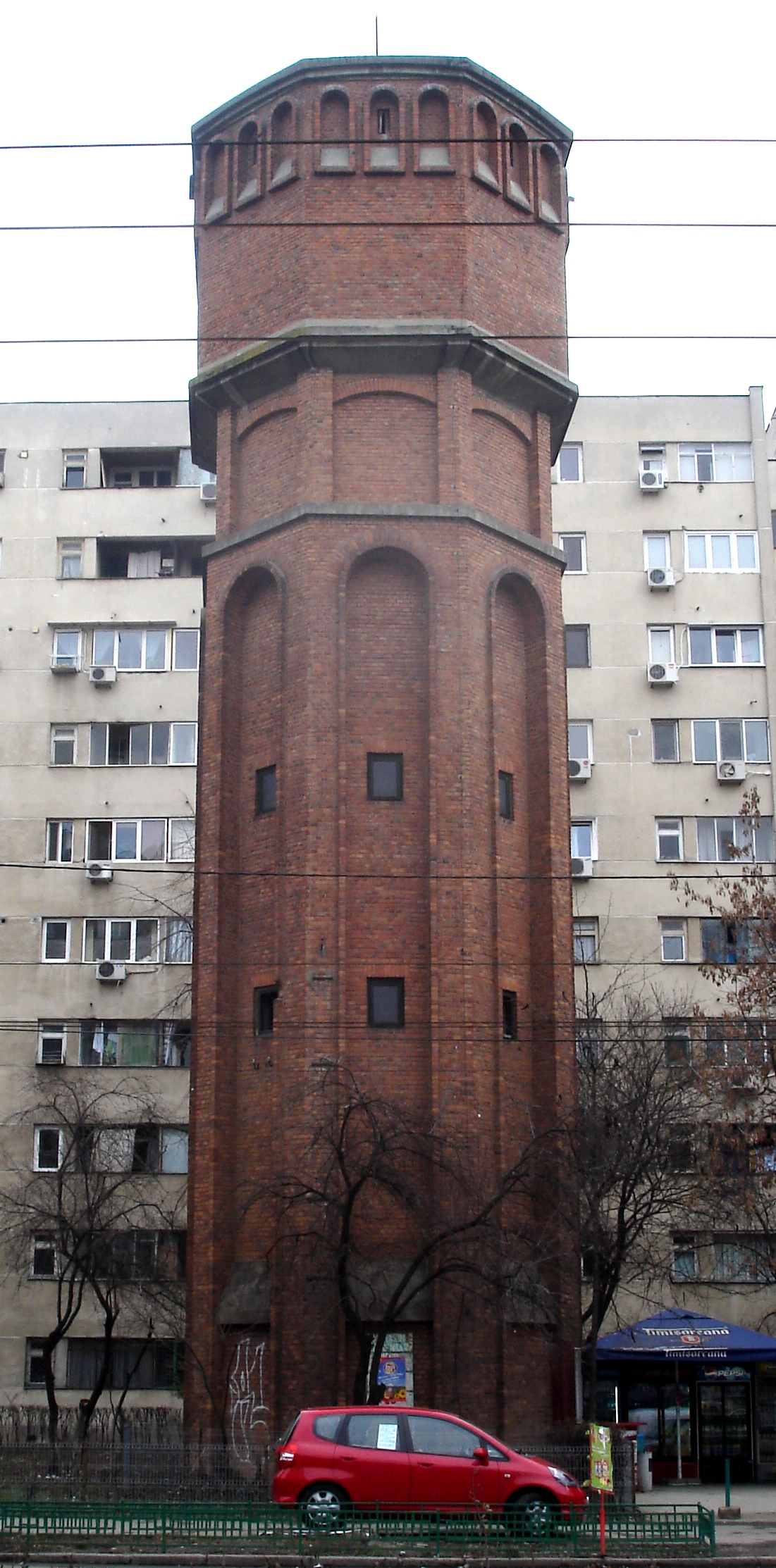 Water tower in disuse in the Drumul Taberei borough, in Bucharest, Romania